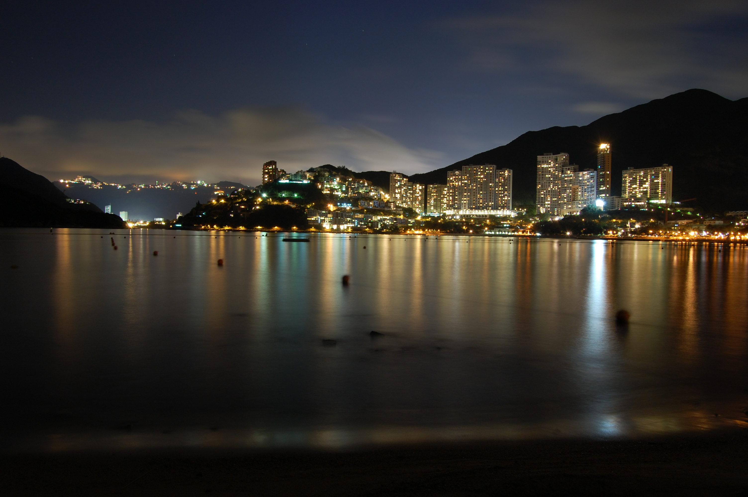 A 30s Exposure night shot of the Repulse Bay. (by Raymond Lo)